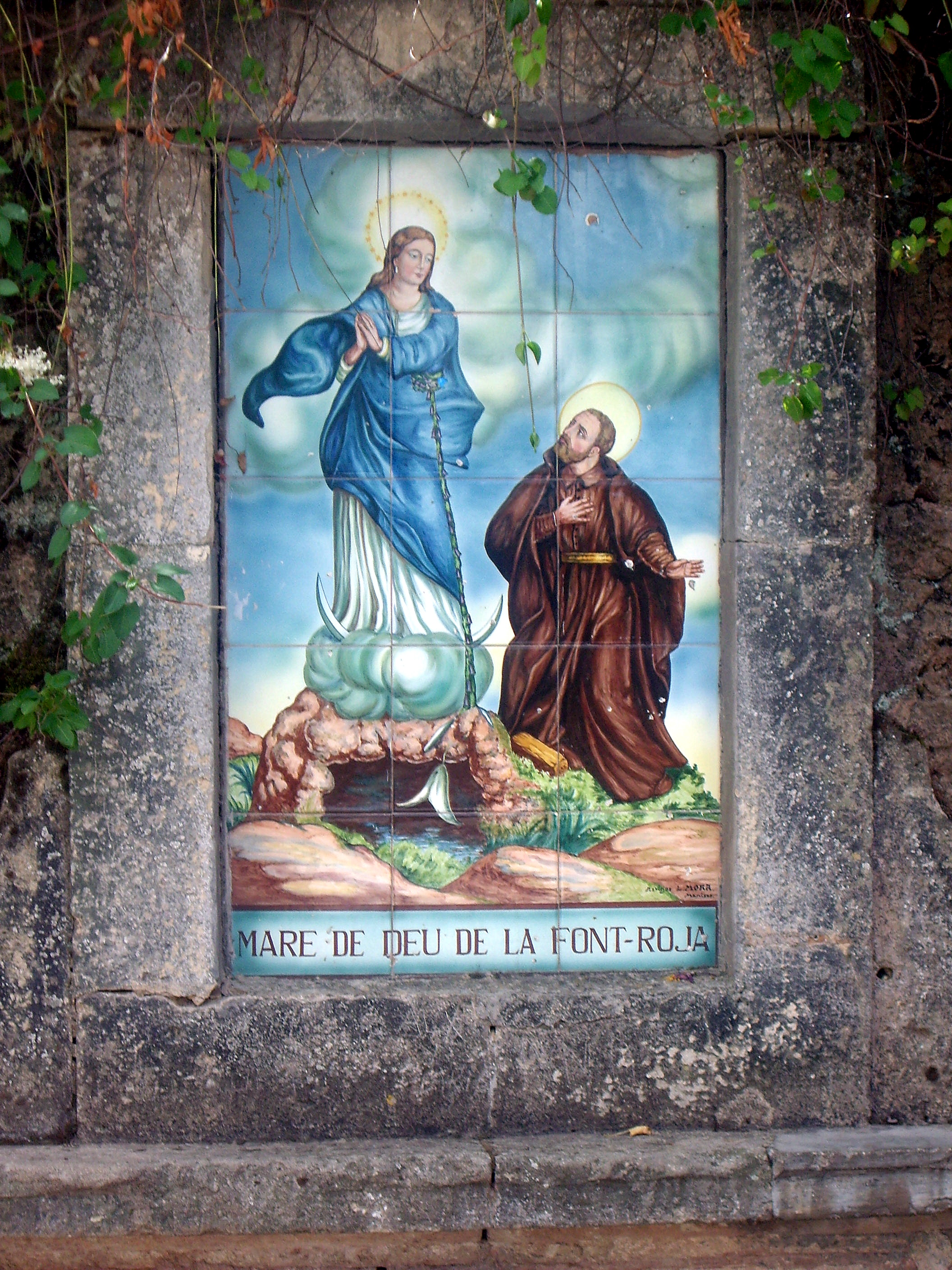 Tiles. Font Roja. Alcoi.